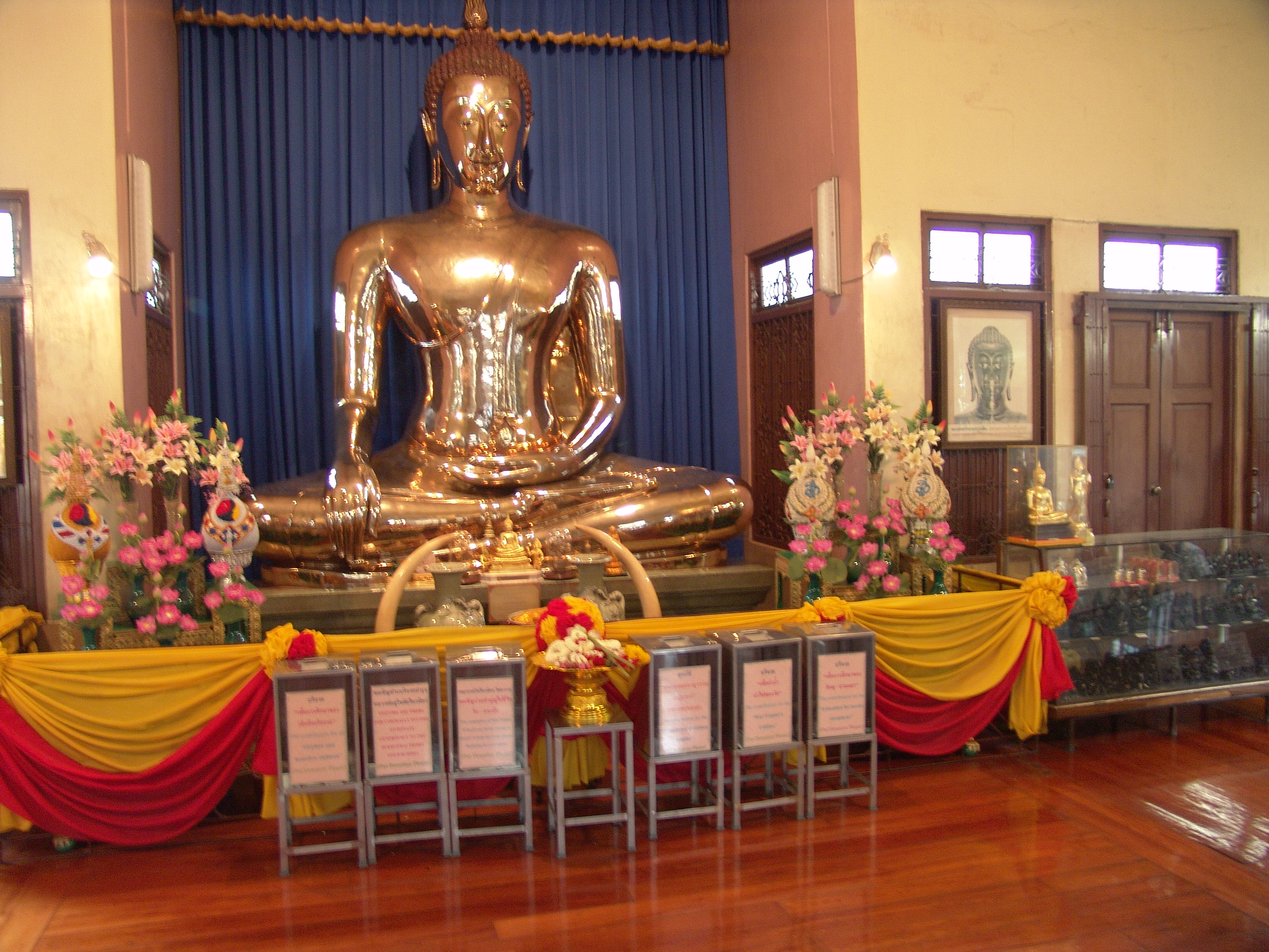 Golden Buddha in Wat Traimitr, Bangkok, April 2005, own work